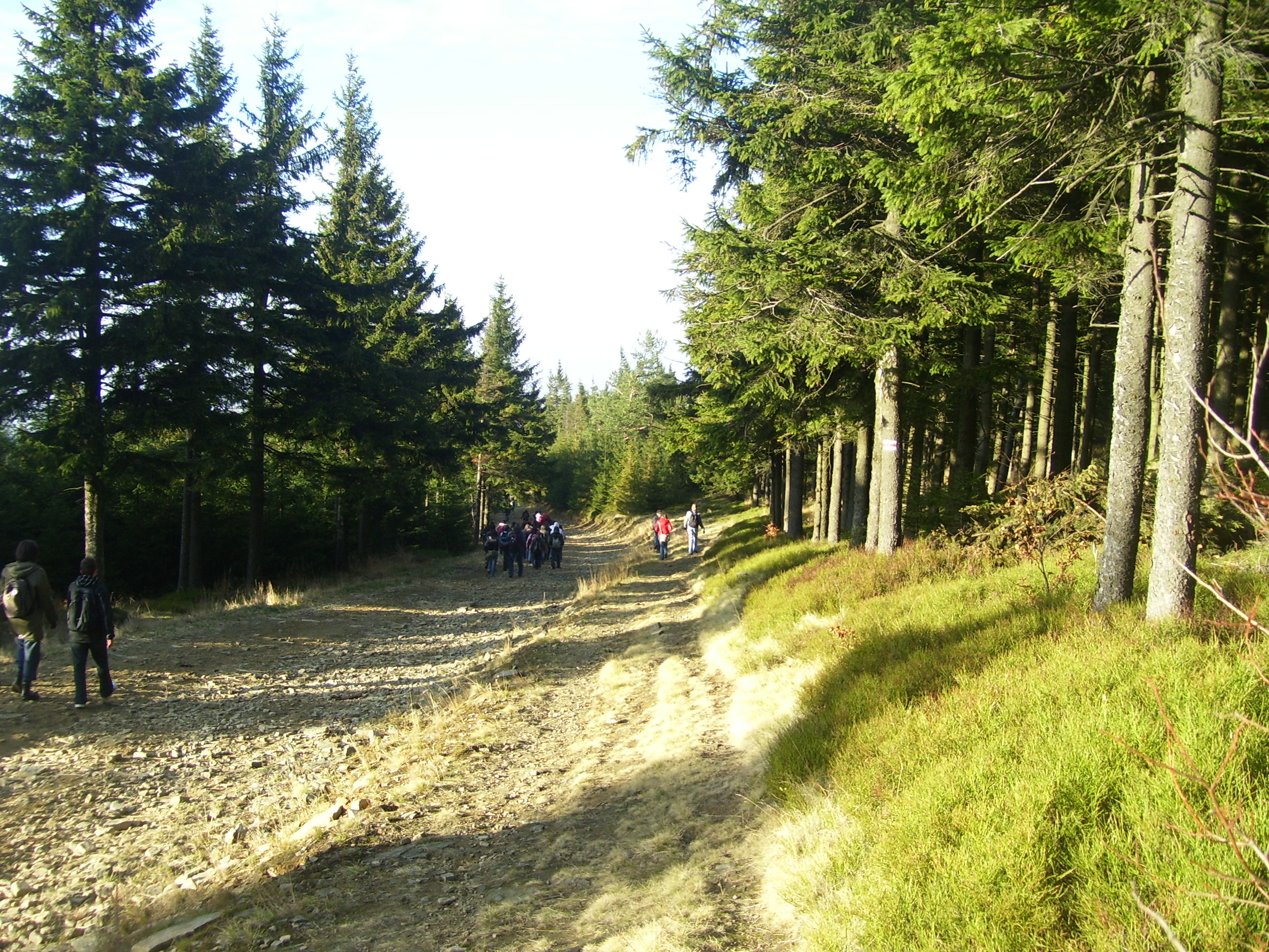 Cross on Szyndzielnia